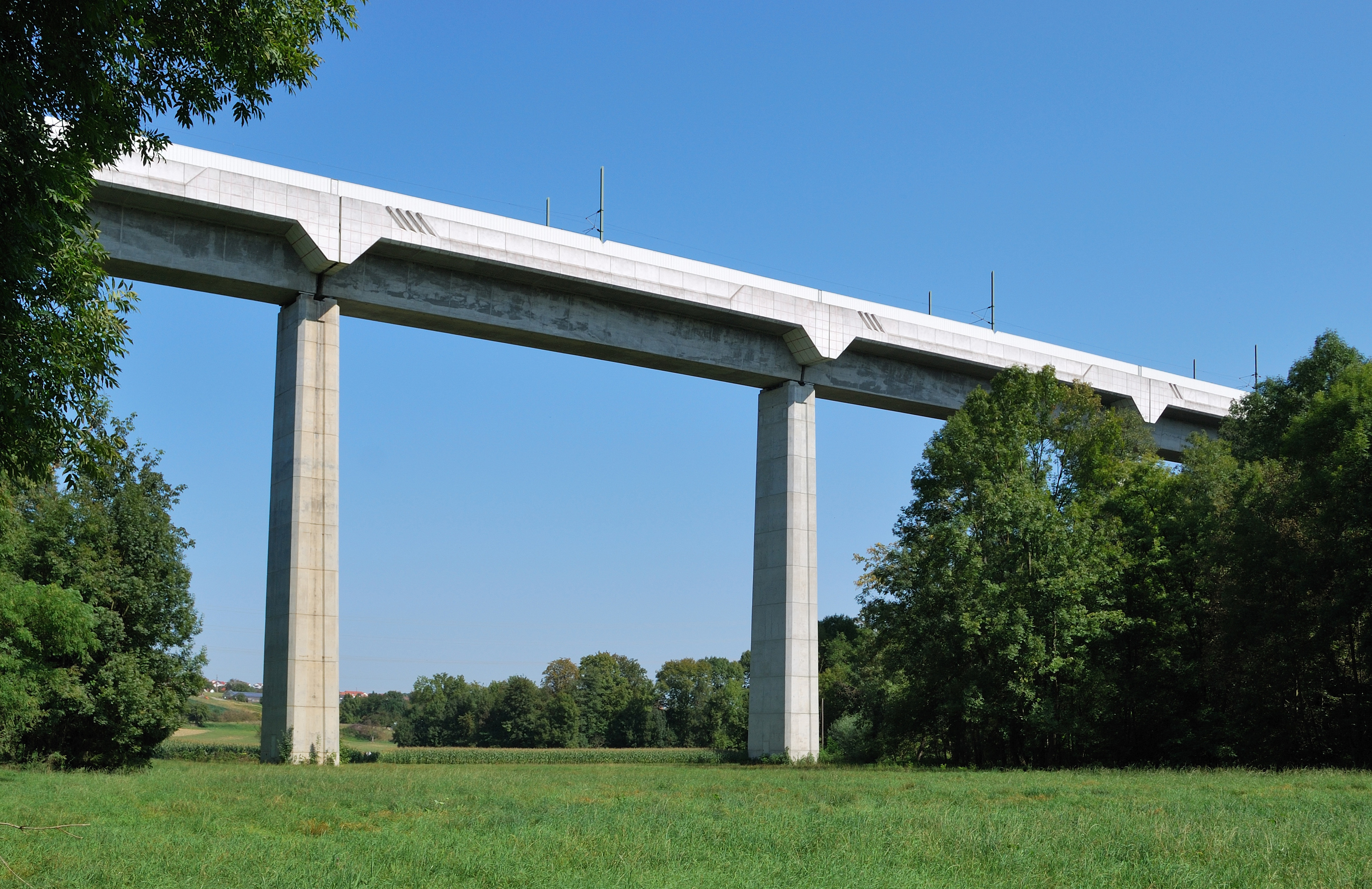 Bridge of the Mannheim–Stuttgart high-speed railway over the valley of the Glems nearby Markgroeningen in Baden-Württemberg in Germany.